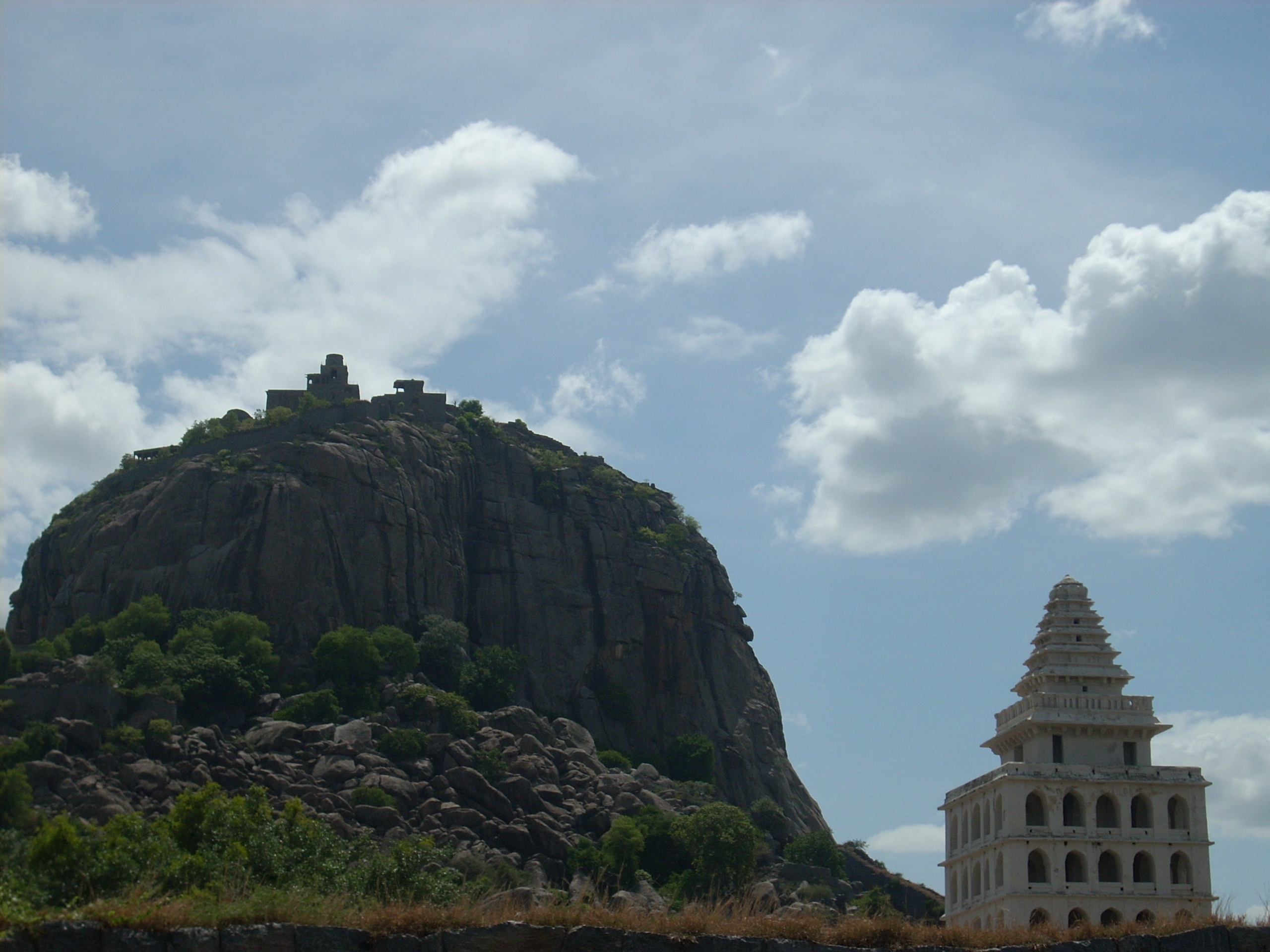 Gingee Fort also known as Chenji or Jinji in Tamil Nadu, India is one of the few surviving forts in Tamil Nadu, India